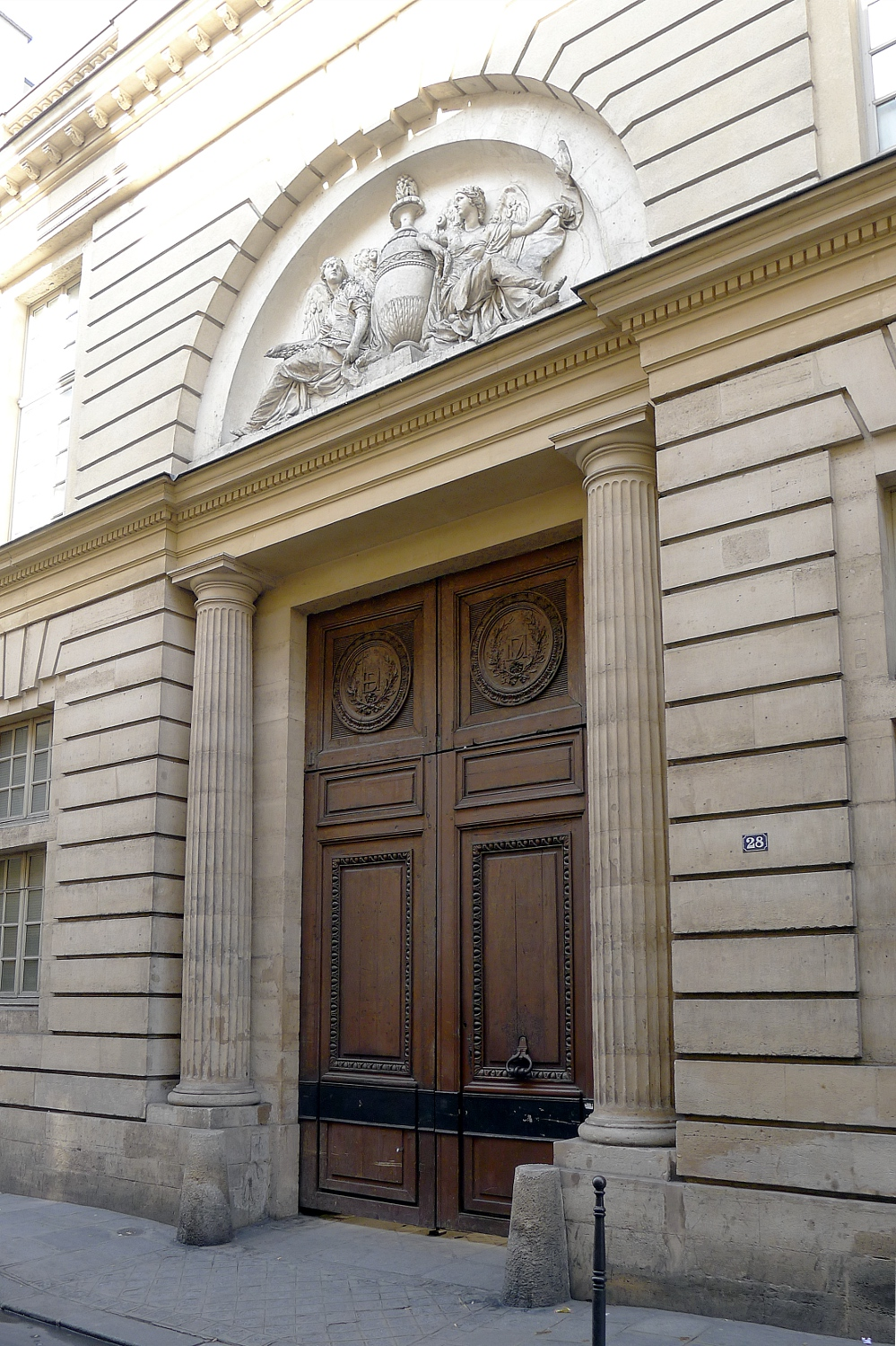 Hallwyll hotel - Paris